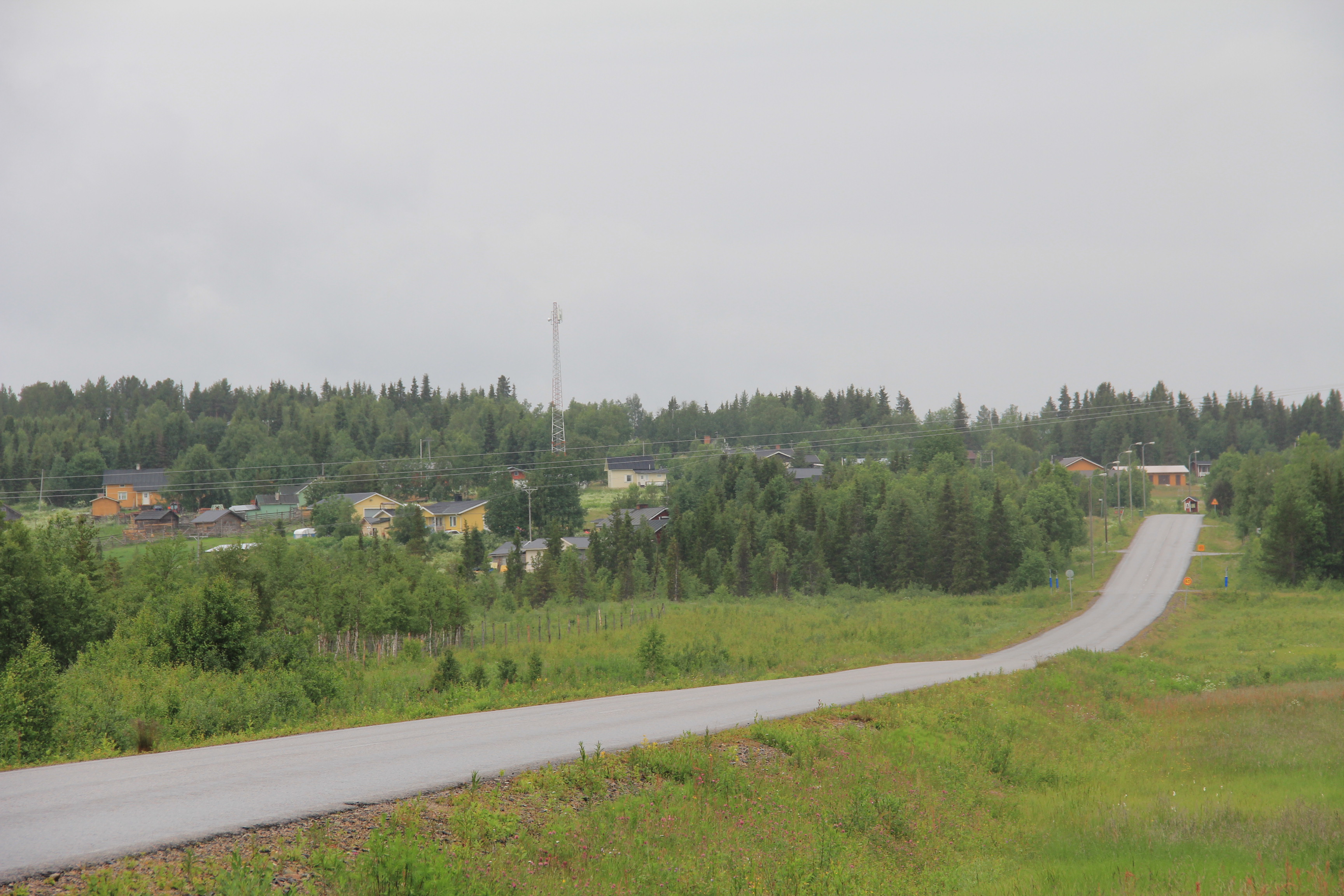 Raattama village, Kittilä, Finland, seen from south.